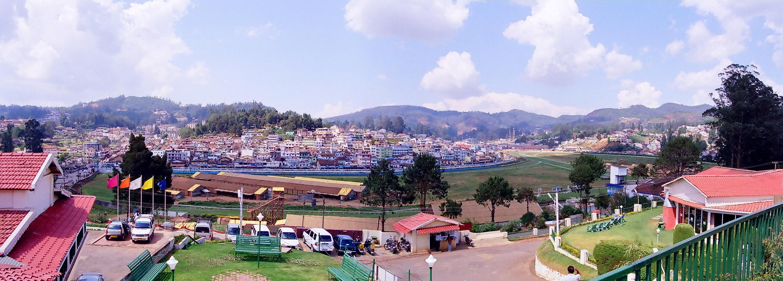 View of Ooty with the race course in the centre.